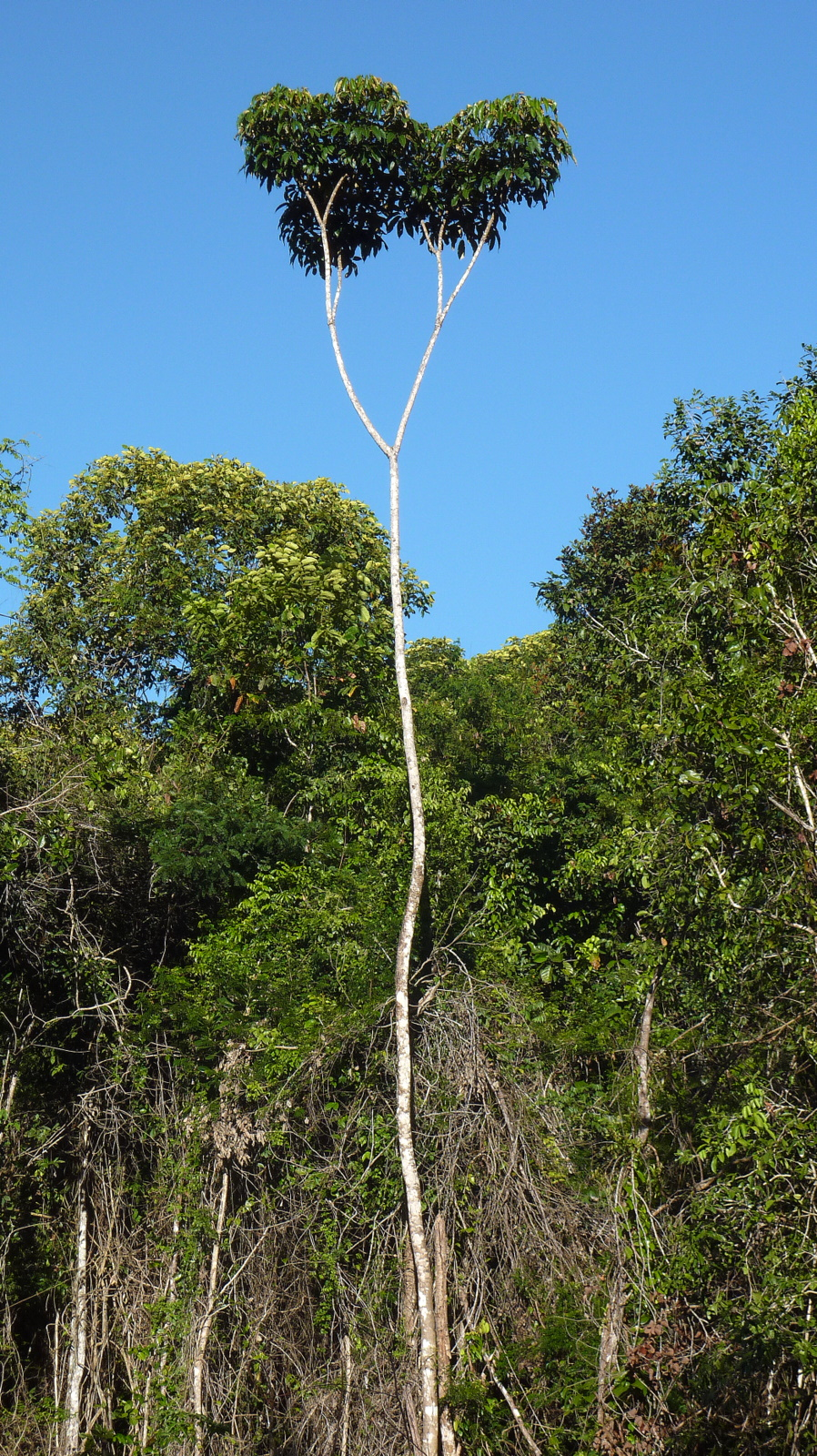 Schefflera morototoni (Aubl.) Maguire, Steyerm. & Frodin